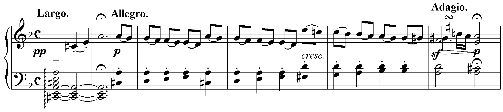 6 First bars of "Tempests" opening